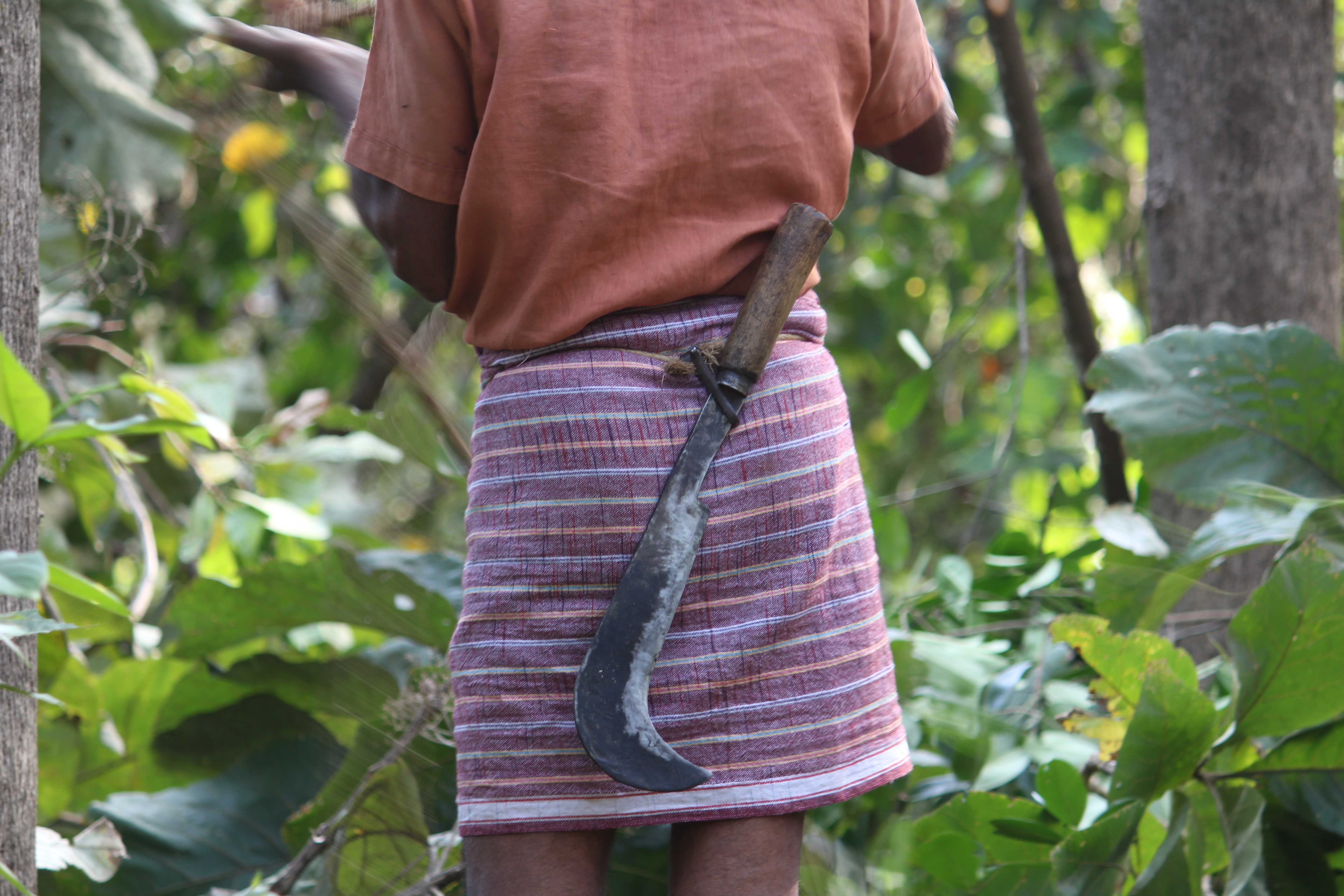 an instrument to hang sickle type cutting sword in Kerala, India